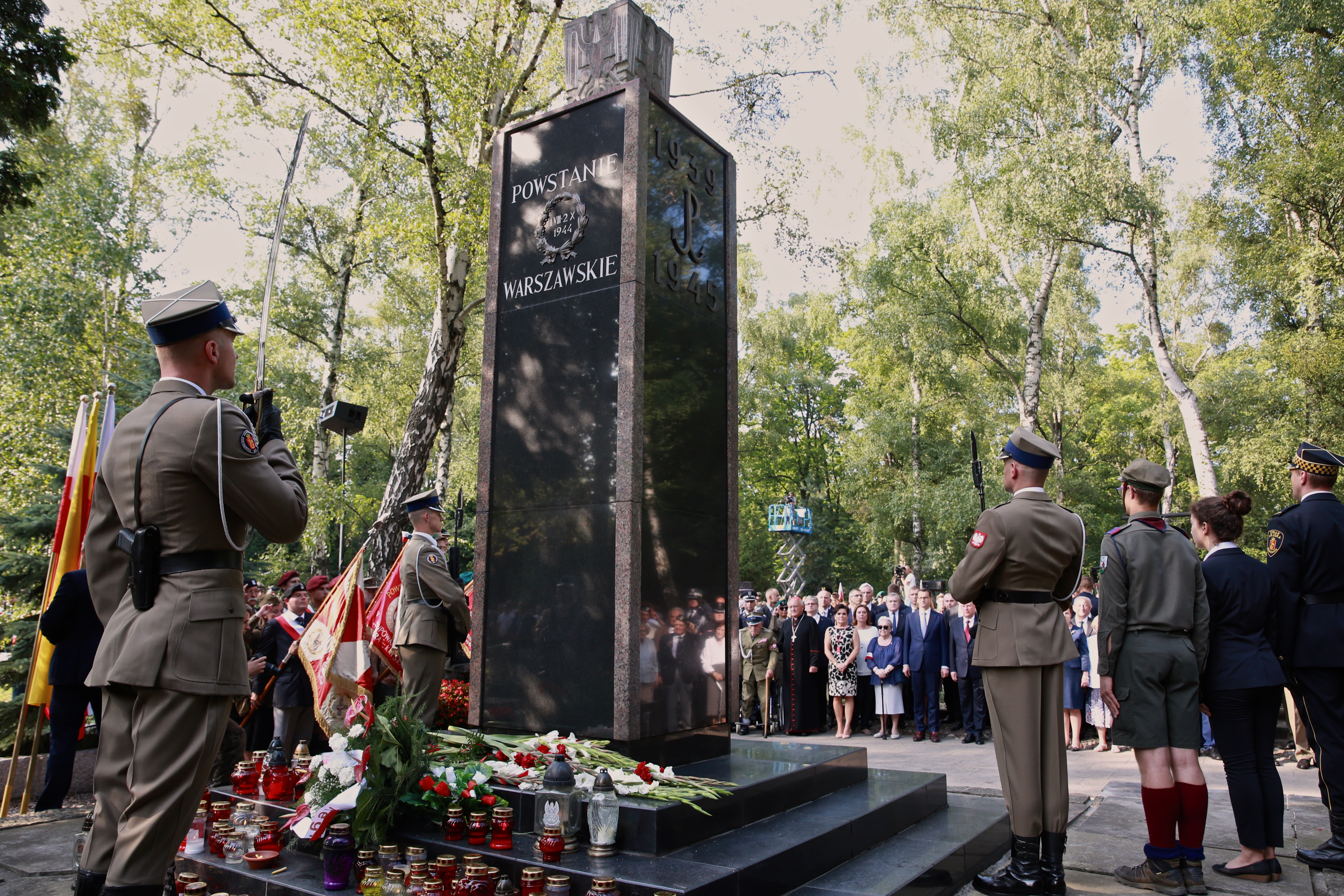 Gloria Victis 1944. Monument in Warsaw. Poland. Celebrations of the 74th anniversary of the Warsaw Uprising of 1944.